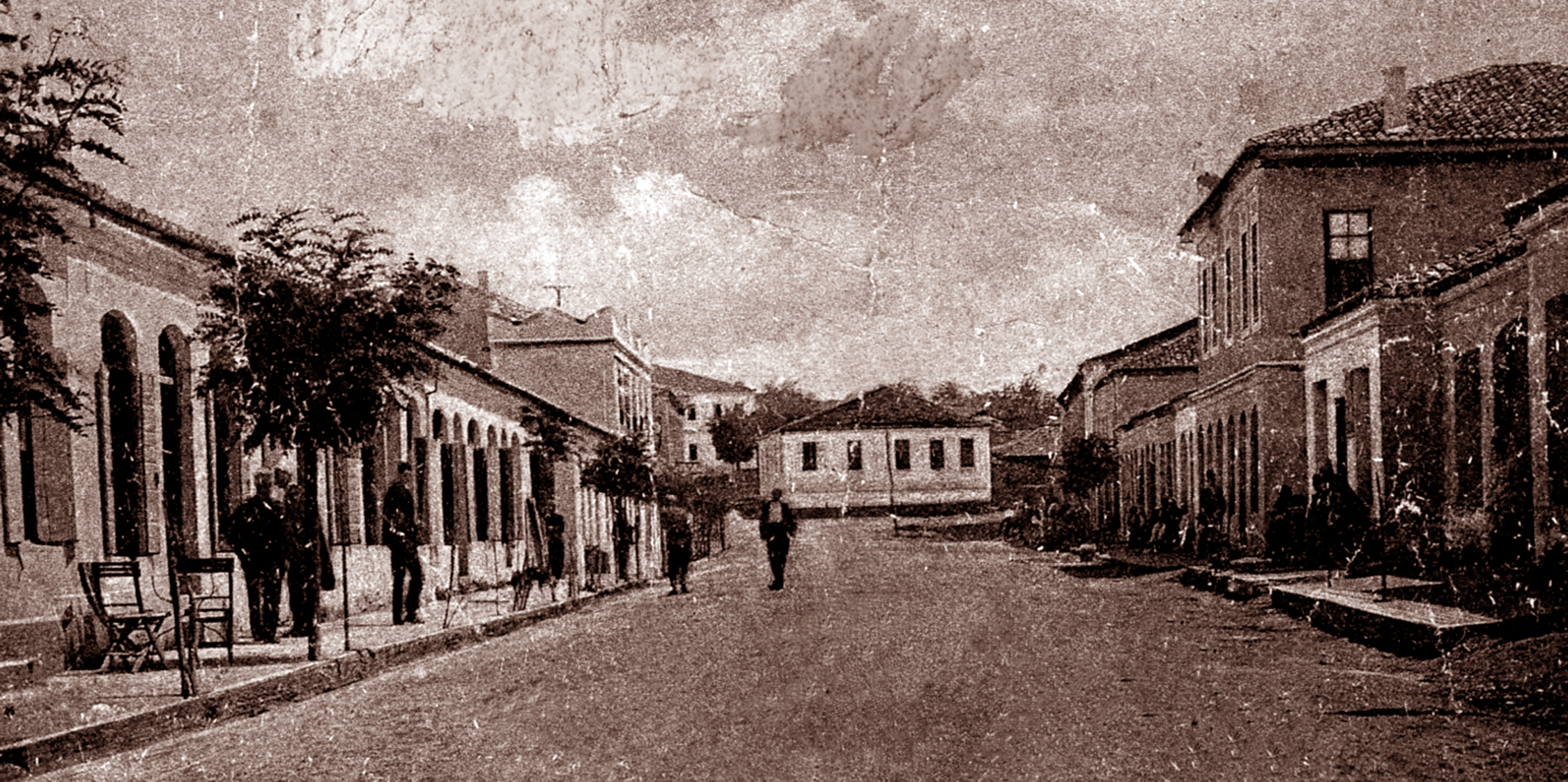 This is a picture of the center of the town of Shijak, Albania in 1927.